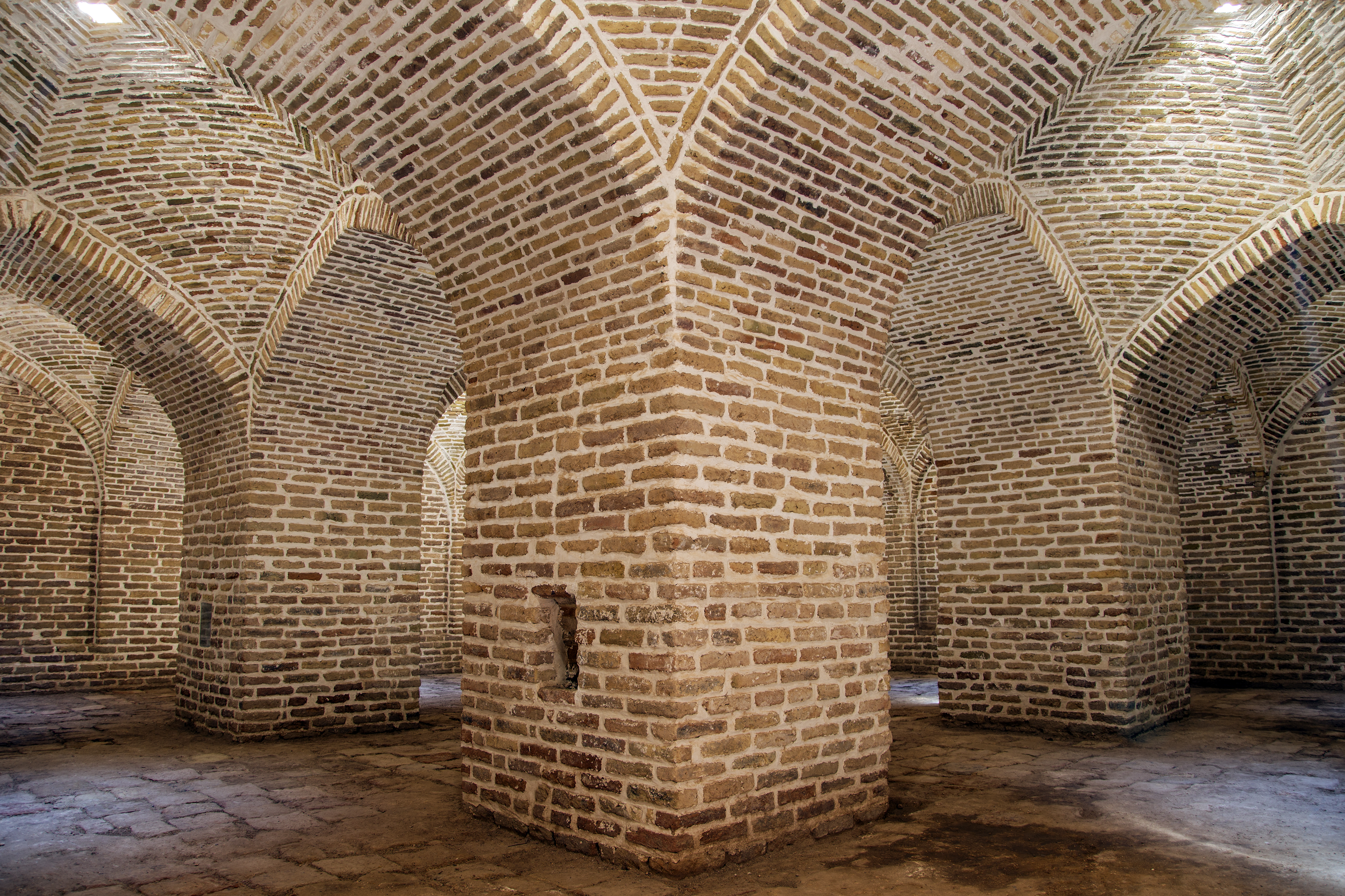 Deir-e Gachin Caravansarai is one of the greatest caravansarais of Iran which is located in the center of Kavir National Park. Its unique qualities is the reason it is called “Mother of Iranian Caravansarais”. It is located in the Central District of Qom County, 80 kilometers north-east of Qom (60 kilometers into Garmsar Freeway) and 35 kilometers south-west of Varamin. (Photo by: Mostafa Meraji, wiki loves monuments 2018)